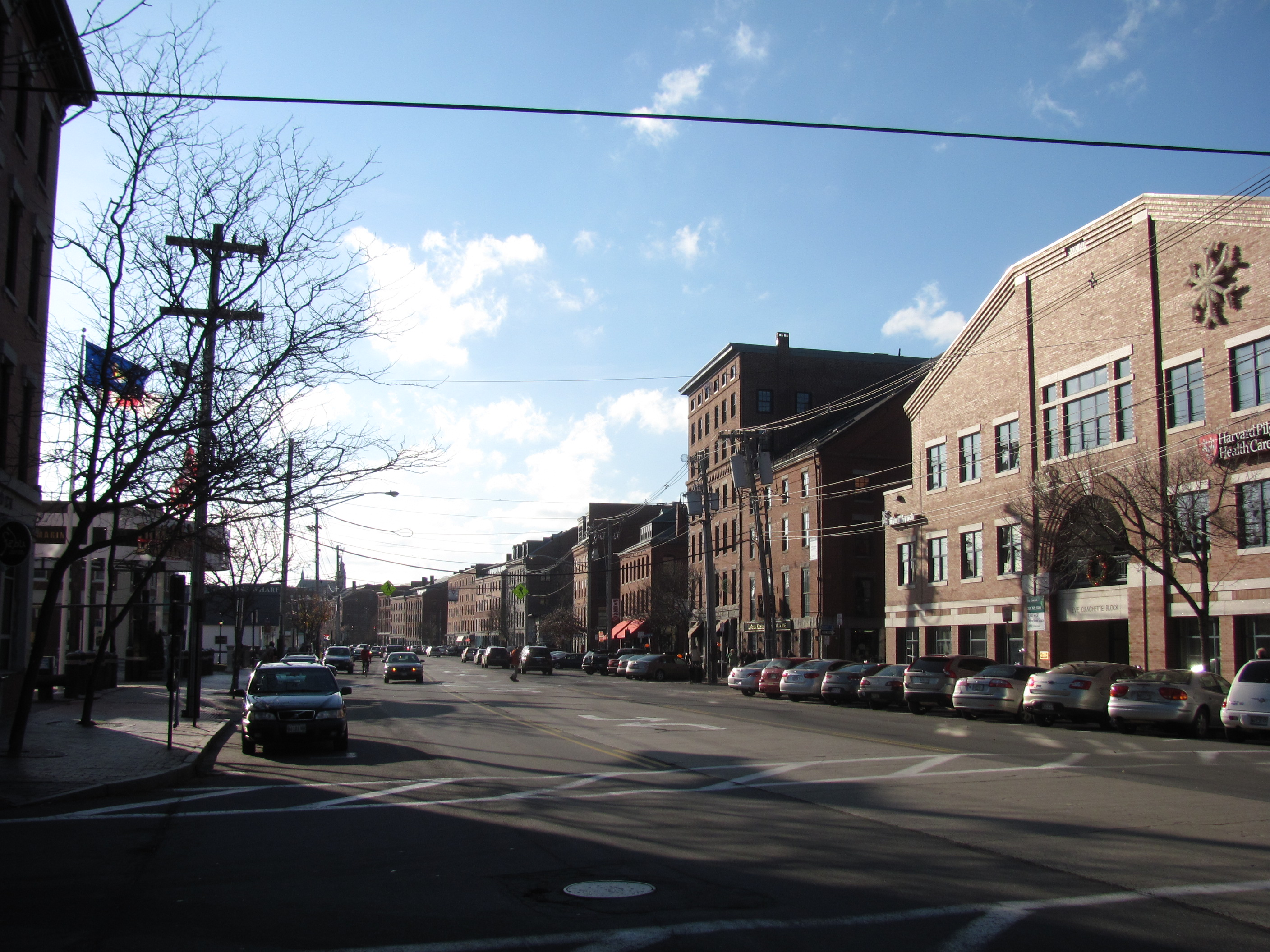 Commercial Street, Portland Maine